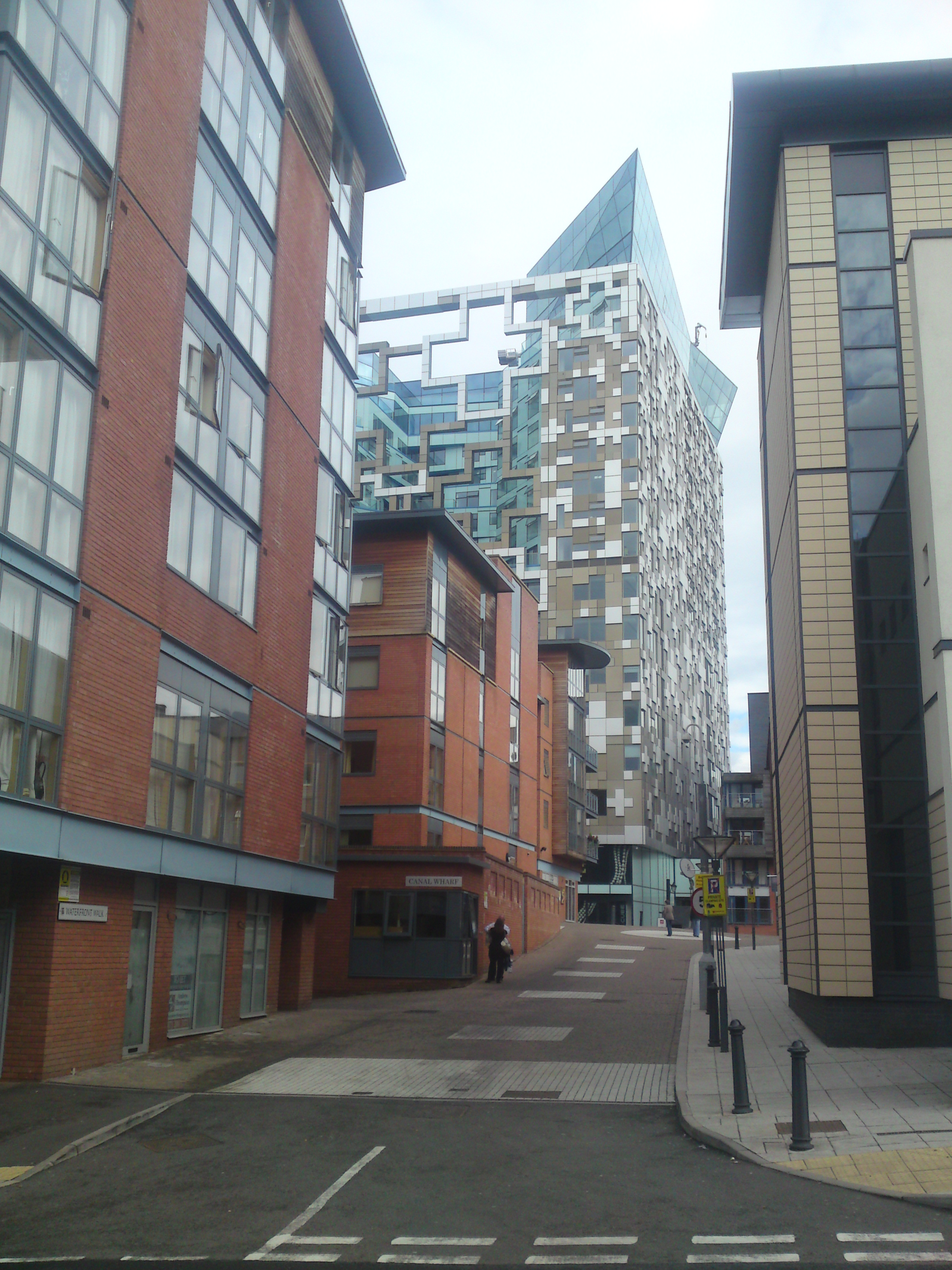 The Cube